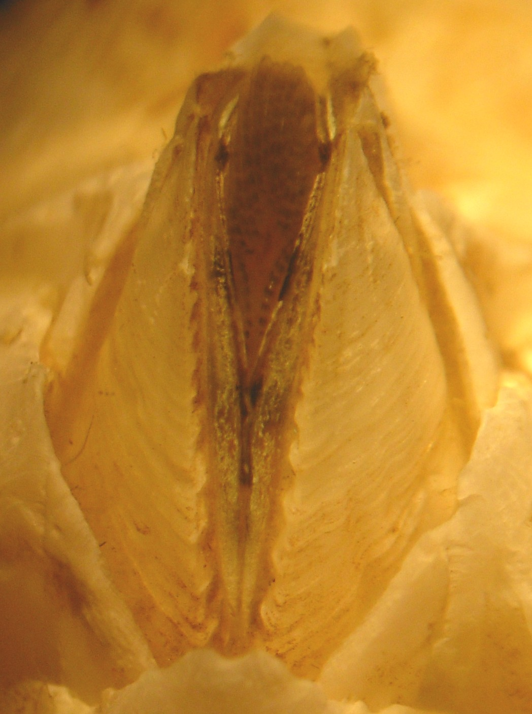 Balanus improvisus. Aperture shape and tergo-scutal flaps.